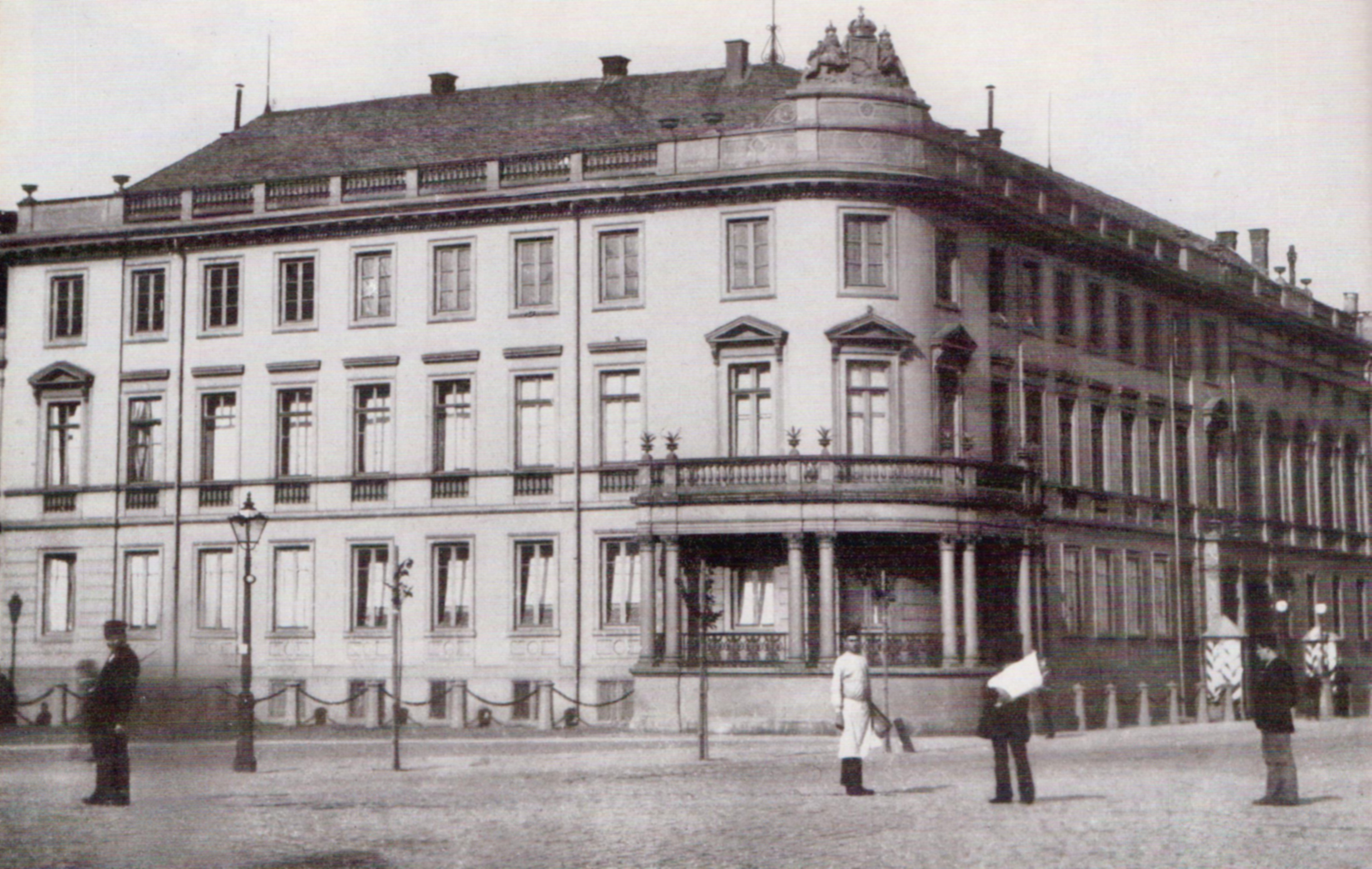 Photo from 1882 of Alexander palace at the Luisenplatz square, view to northwest, right side north direction Mathildenplatz square, left west road Rheinstraße with connecting building "Alte Post"